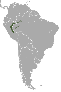 Bald Uakari (Cacajao calvus) range